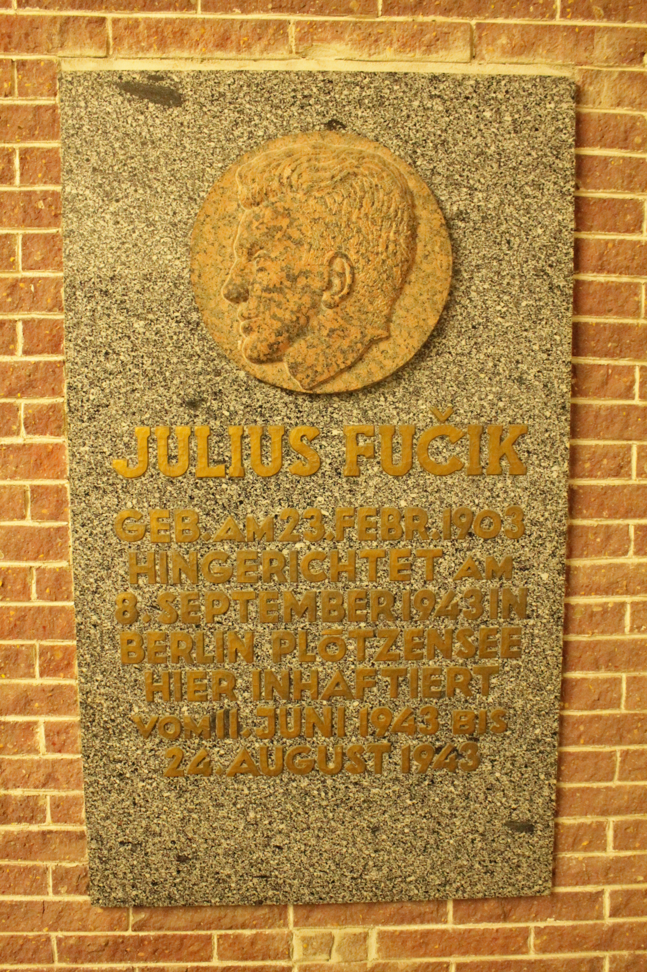 Memorial to Julius Fučík in Bautzen II